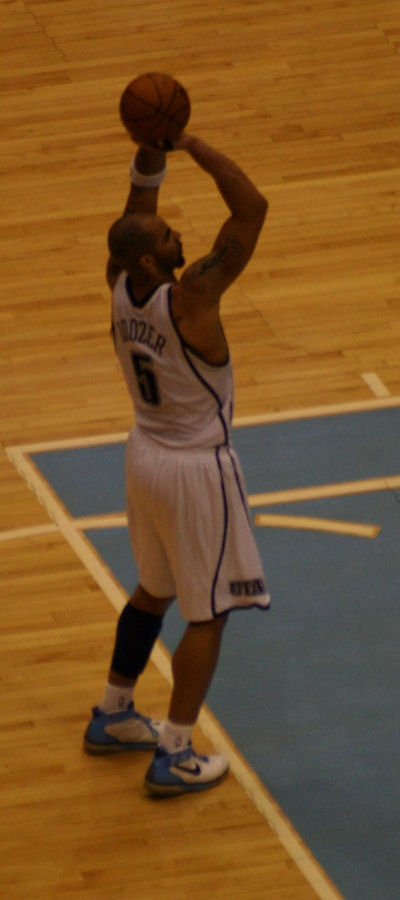 Carlos Boozer freethrow in the Utah Jazz-Dallas Mavericks game March 3rd 2008, which Utah won.